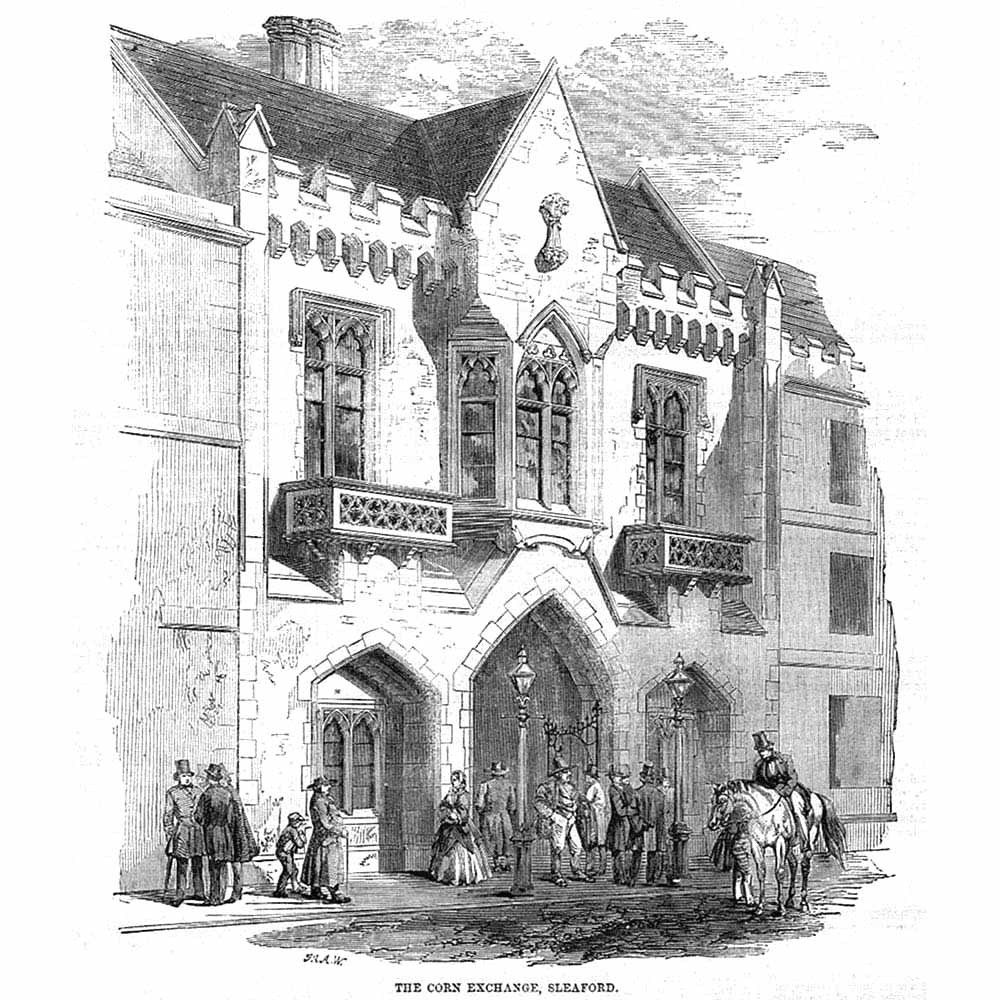 The Corn Exchange at Sleaford, Lincolnshire, England, from the Illustrated London News 1859